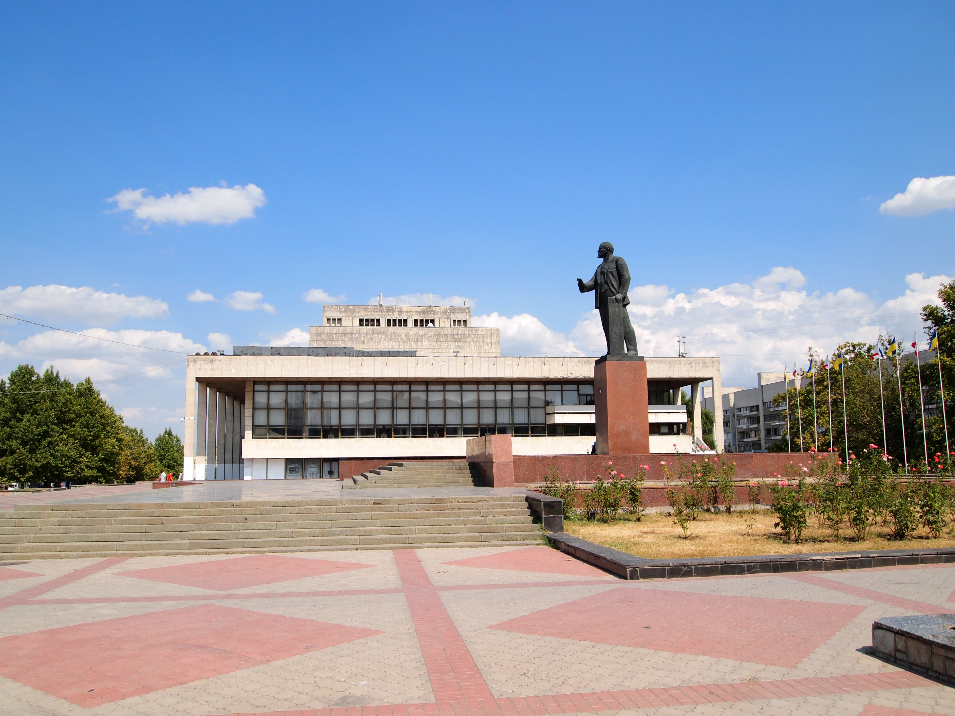 Lenin square in Simferopol. This photograph was taken with an Olympus E-PL1.